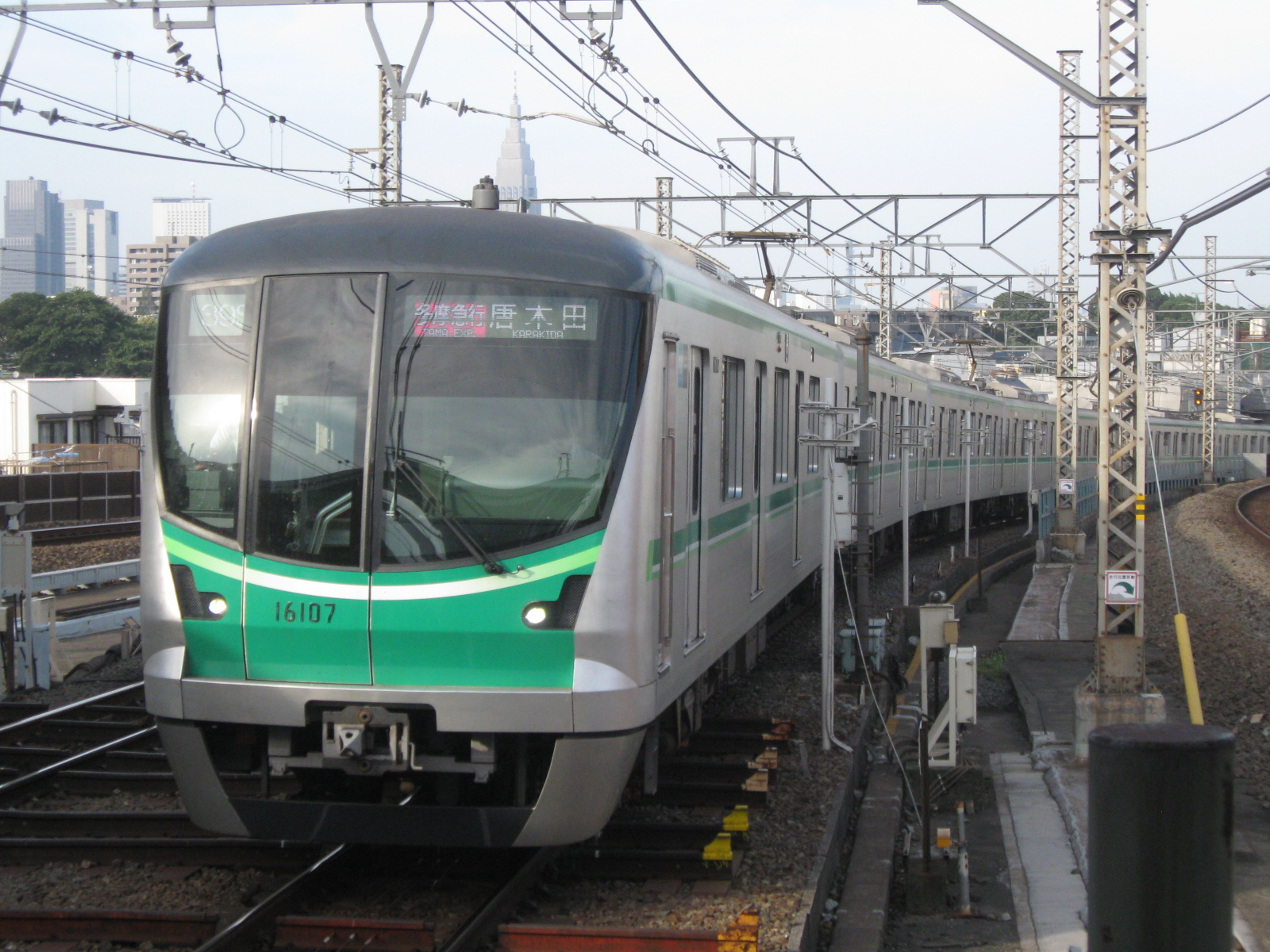 Tokyo Metro 16000 series EMU set 16107 approaching Yoyogi-uehara Station on a Chiyoda Line subway service